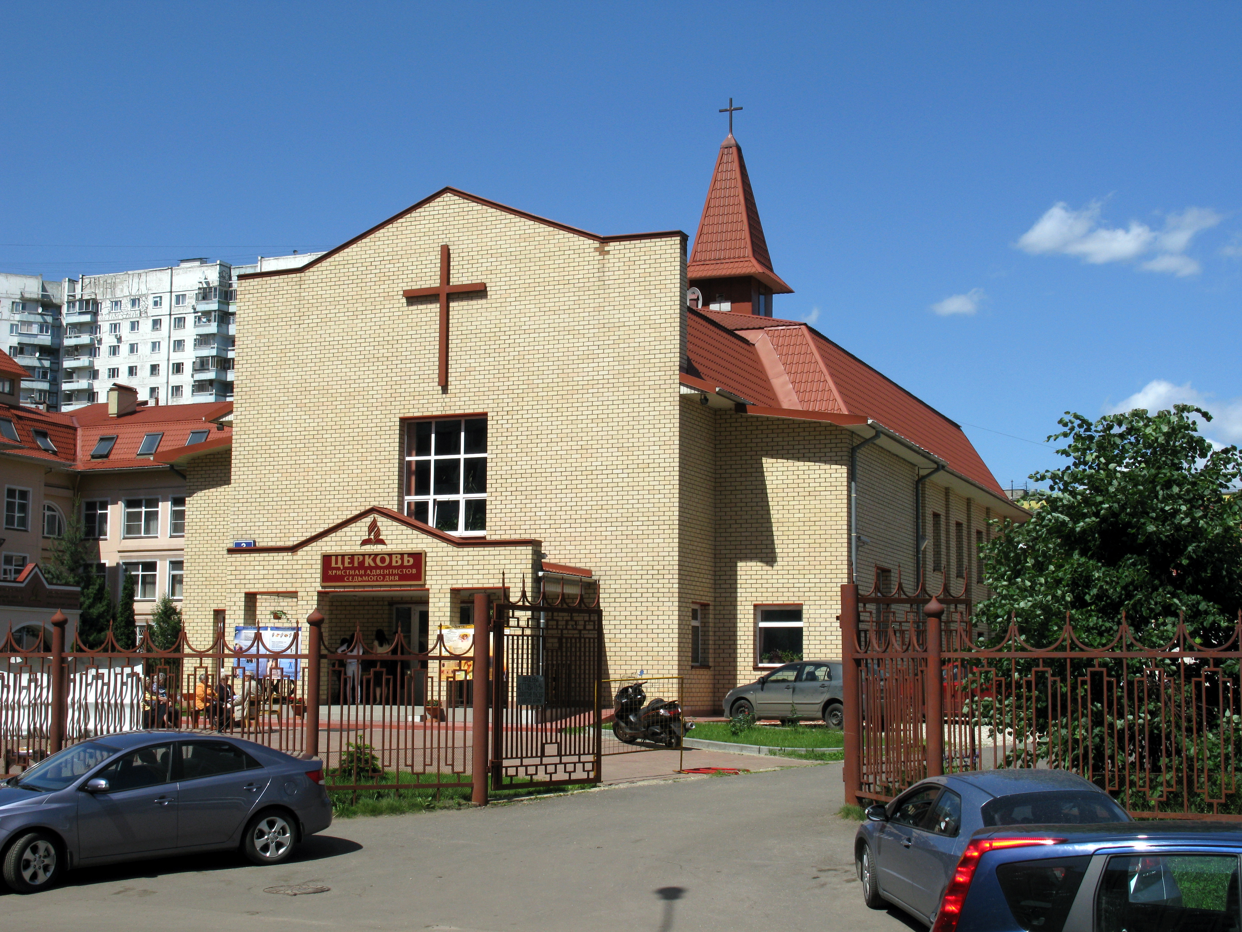 Seventh-Day Adventist church (Moscow)